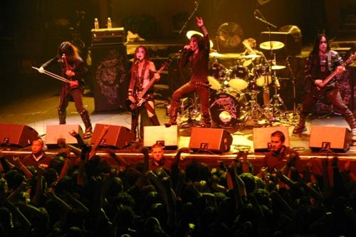 CHTHONIC's concert in Metropolis, Montreal, CANADA